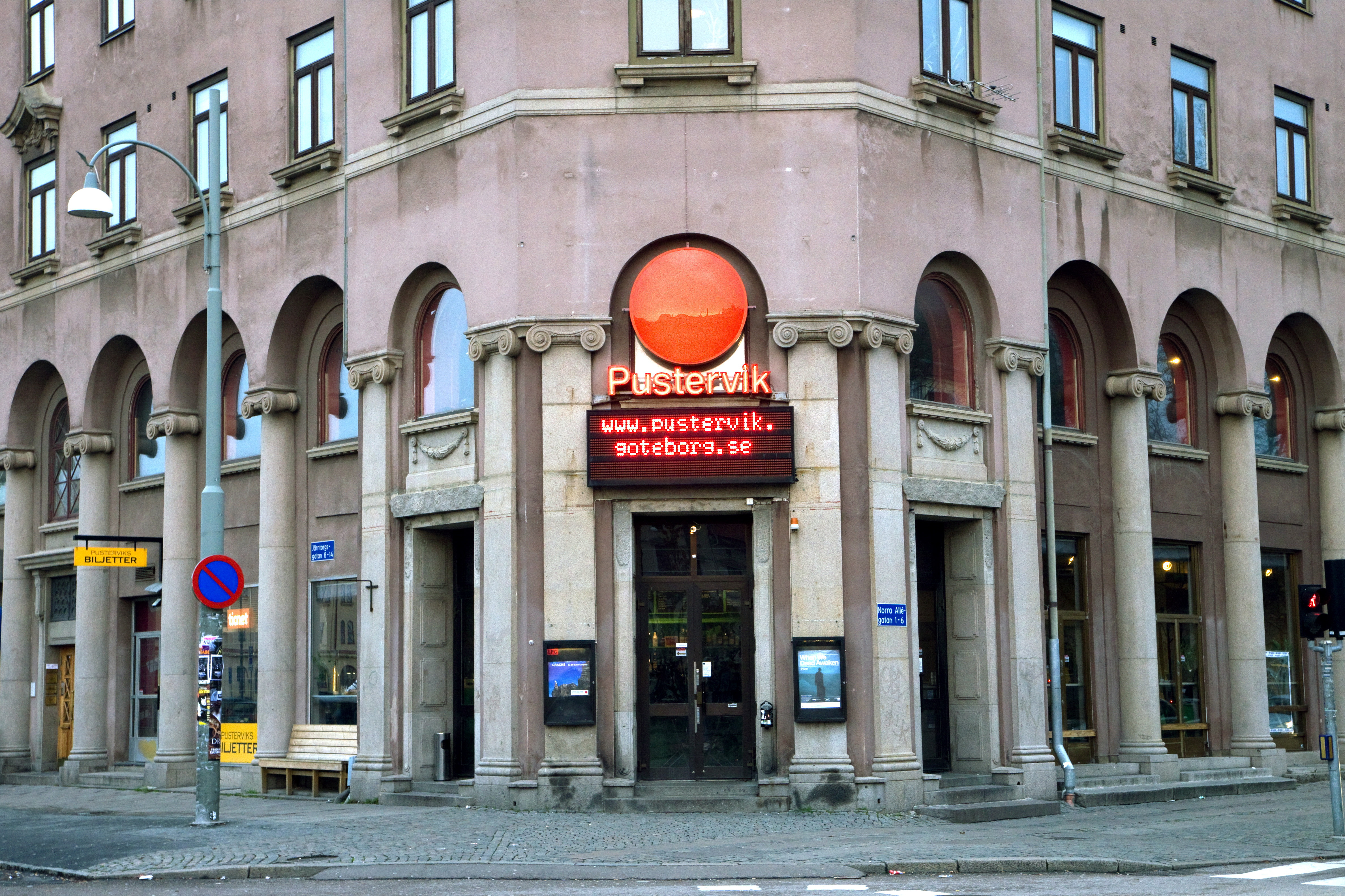 Entrance to the teater, bar and restaurant Pustervik, Gothenburg